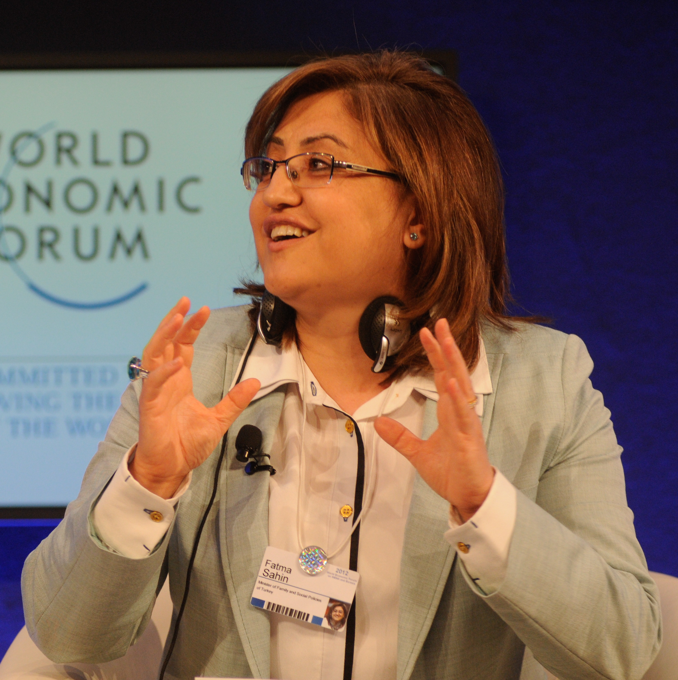 ISTANBUL, TURKEY, 6 June 2012 - Fatma Sahin, Minister of Family and Social Policies of Turkey, participates in a TV debate at the World Economic Forum on the Middle East, North Africa and Eurasia in Istanbul, 4-6 June 2012. Copyright World Economic Forum ( by Norbert Schiller